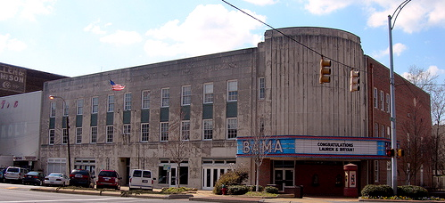 photo of bama theatre